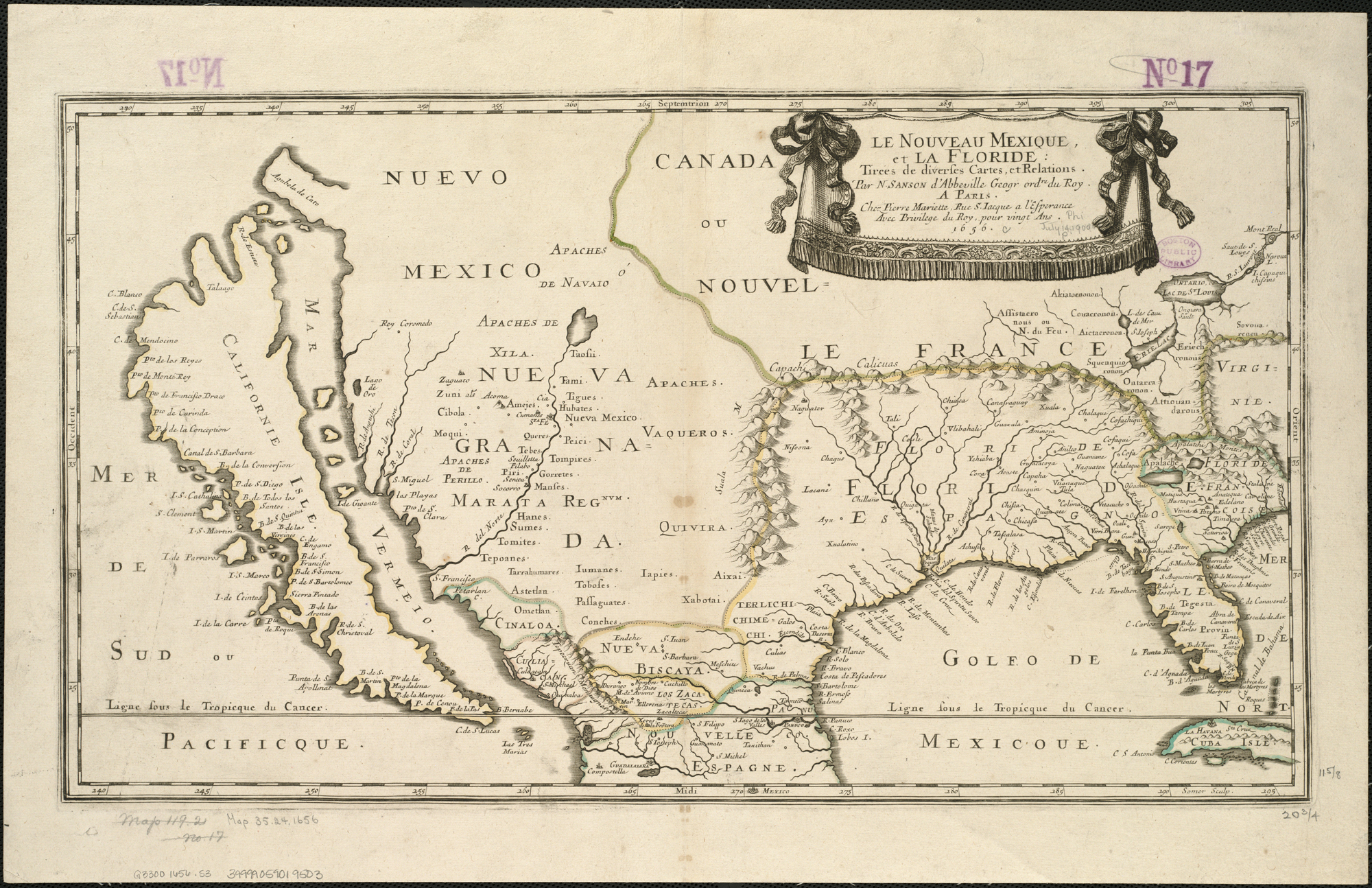 Zoom into this map at . Author: Sanson, Nicolas Publisher: Mariette, Pierre Date: 1656 Location: North America, Southwest, Old Dimension: 30 x 54 cm Scale: Scale not given Call Number: G3300 1656 .S3